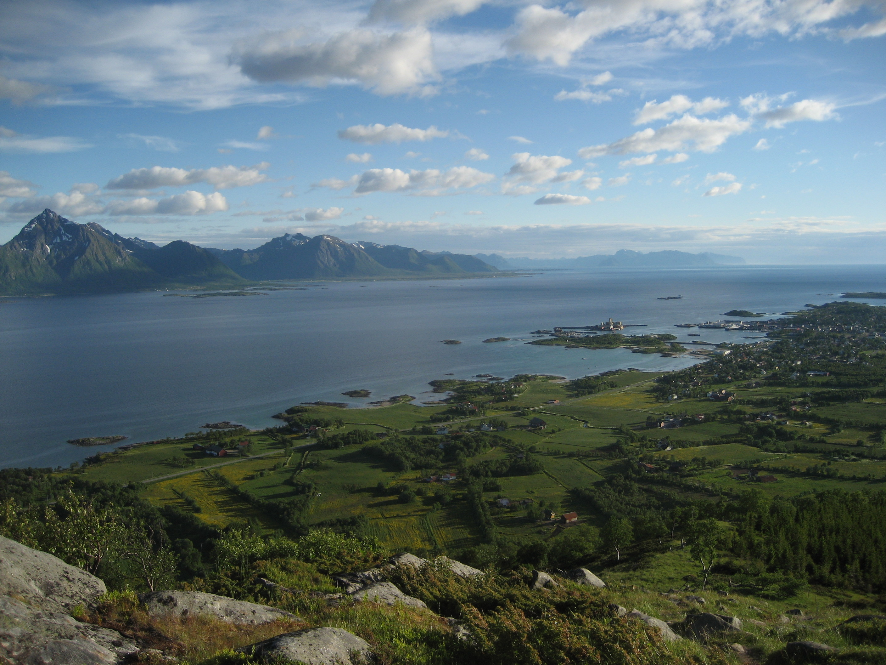 From The mountain Husbykollen. Towards Gulstad and Melbu